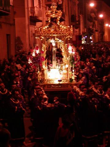 Cristo Nero a Caltanissetta